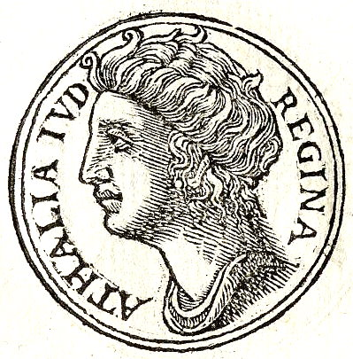 Athalia was the queen of Judah during the reign of King Jehoram, and later became sole ruler of Judah for six years.